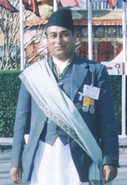 Mangal Raj Joshi, former Royal Astrologer of Nepal.